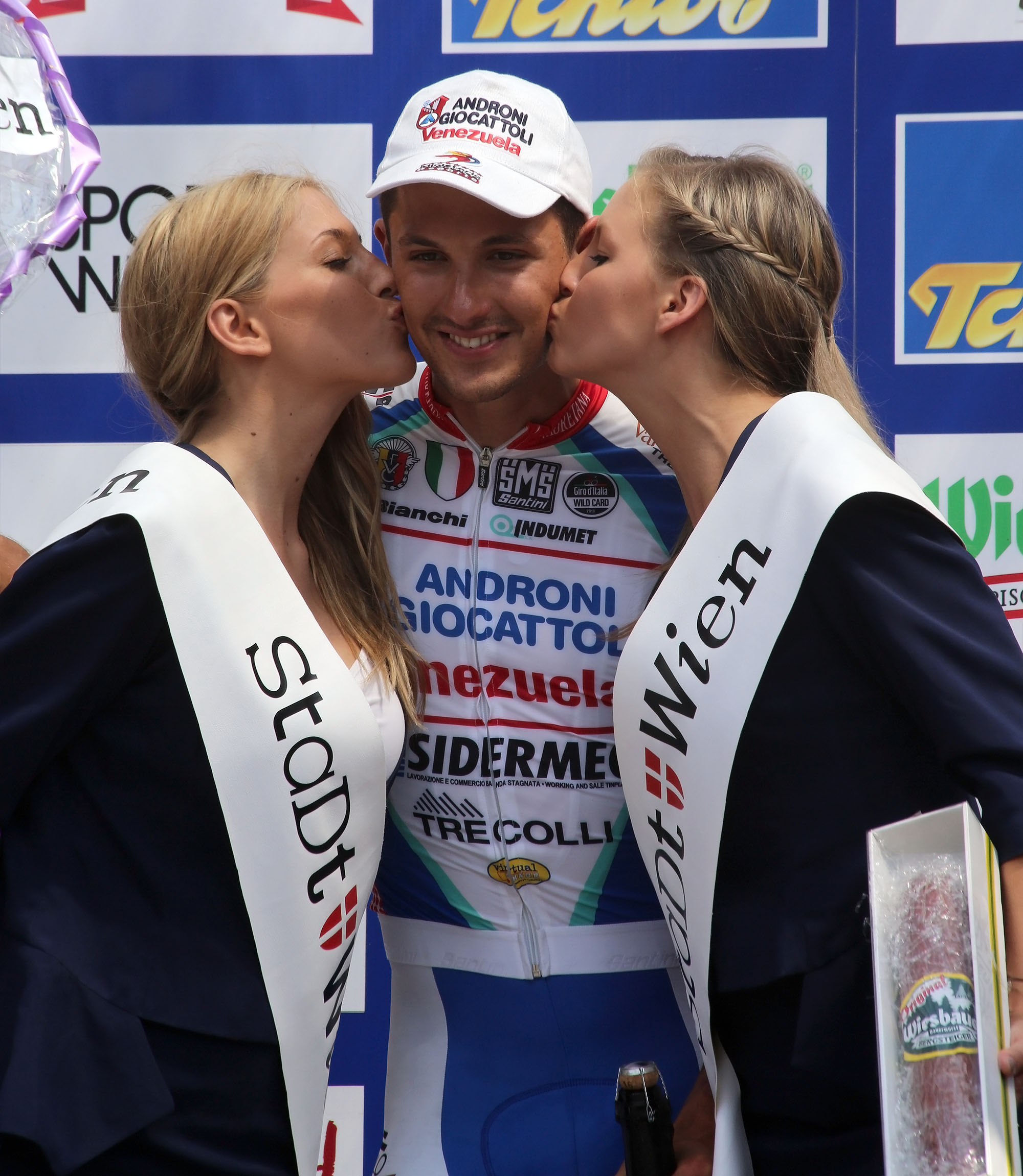 Omar Bertazzo, winner of the final stage, at the award ceremony of the Tour of Austria in Vienna, Austria.